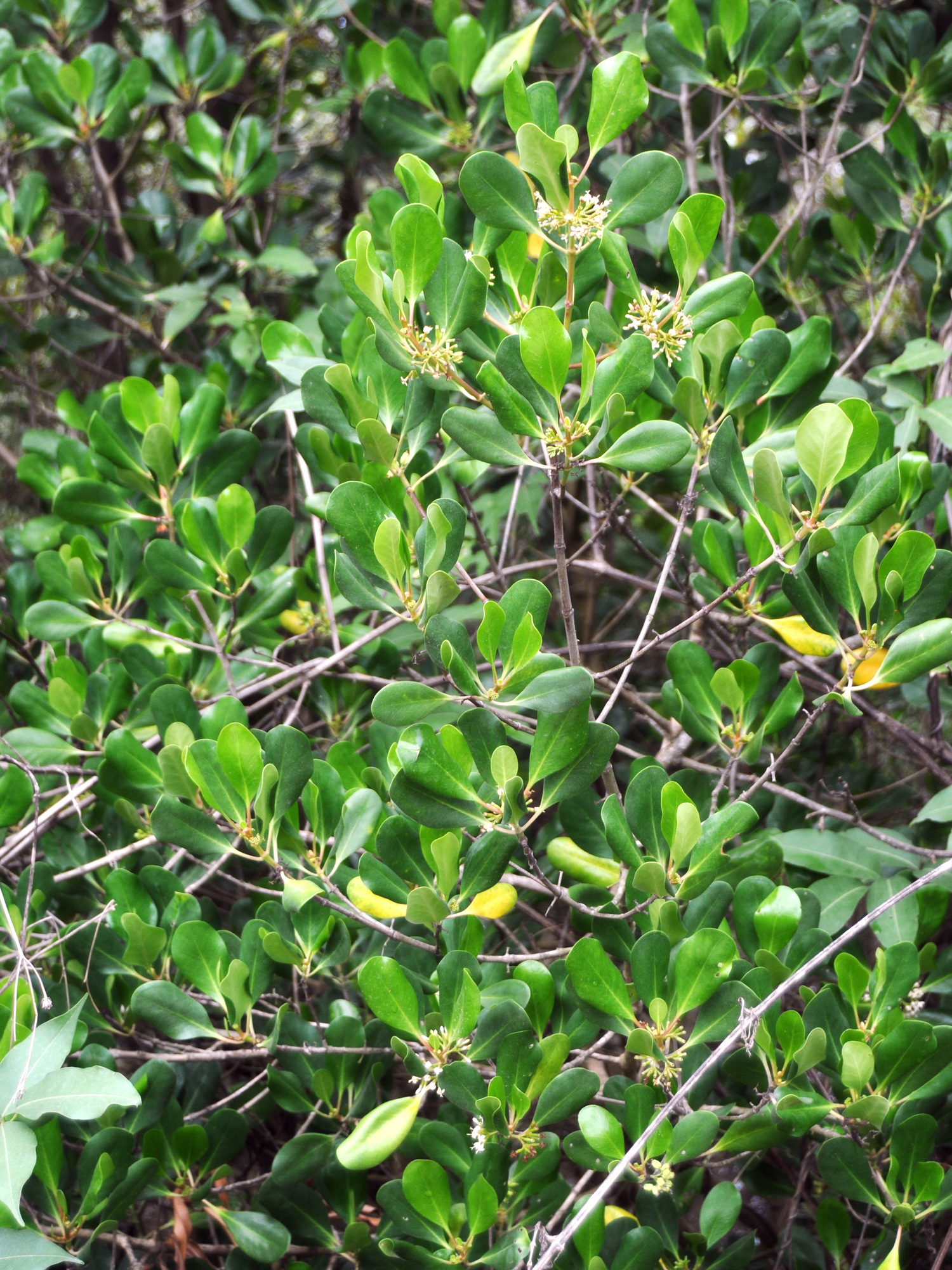 Scyphiphora hydrophylacea; twigs with flowers. From Pulau Laut, South Kalimantan, Indonesia.